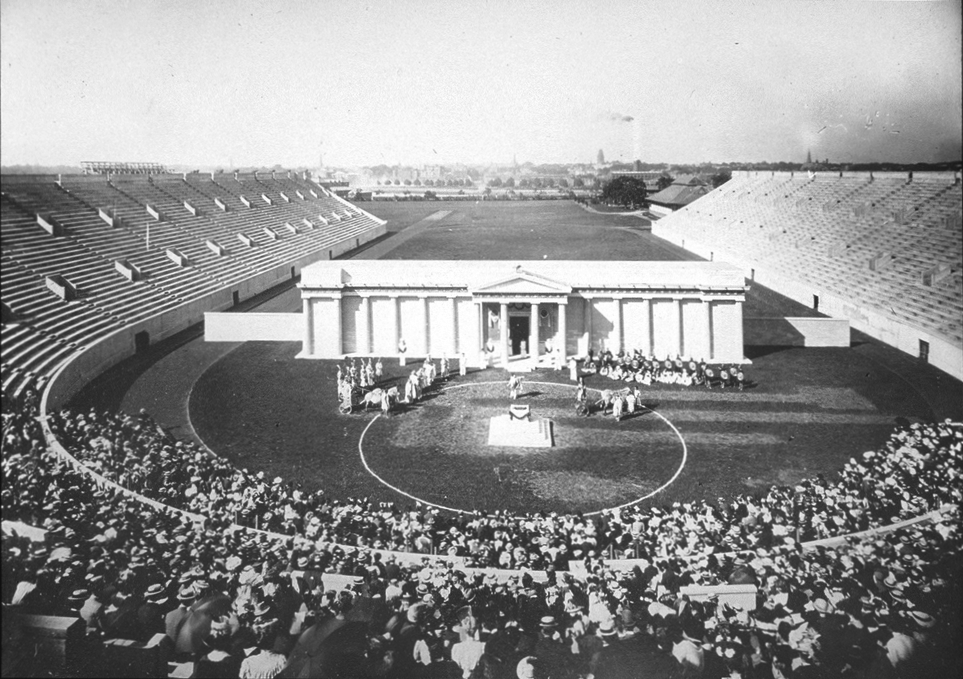 Greek play performed in Harvard Stadium - 1905